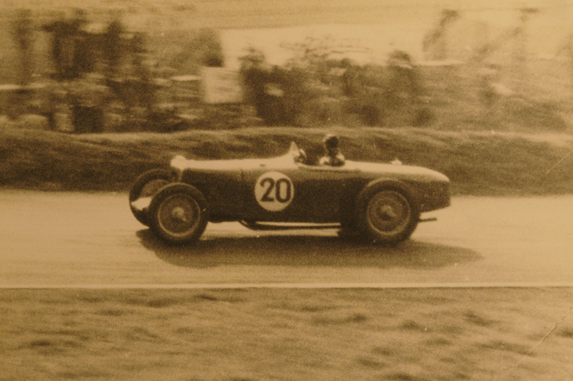 Donington Grand Prix 1937. Percy Maclure driving a Riley.